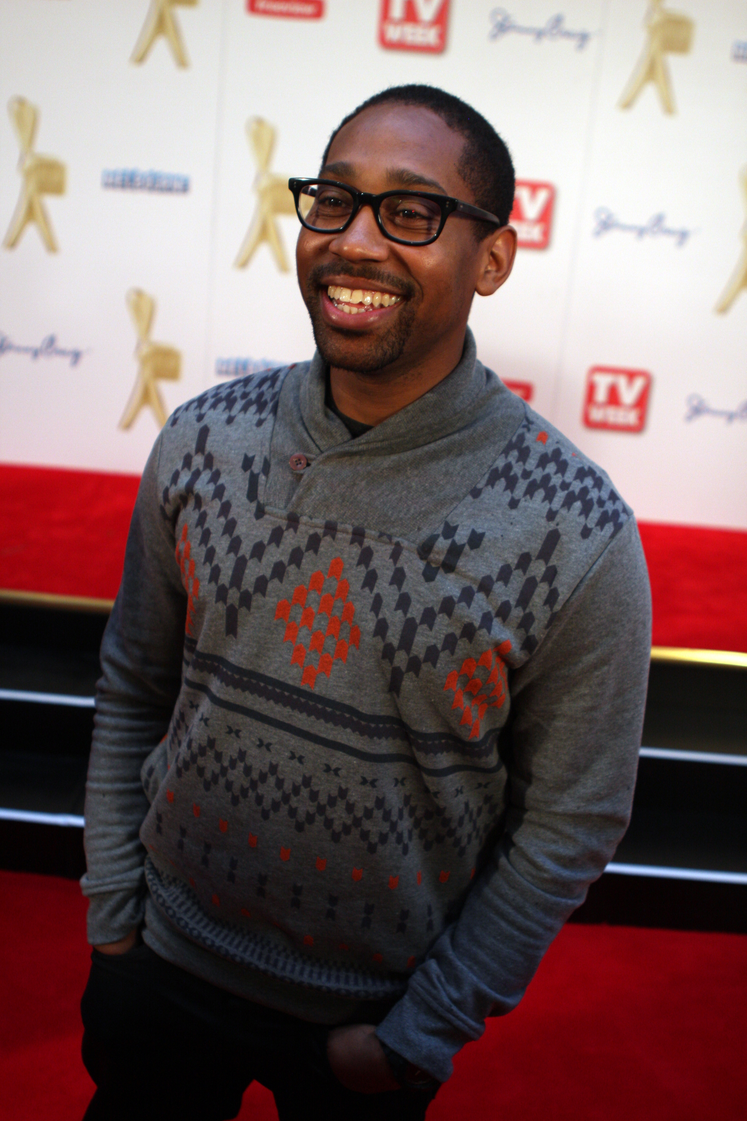 Paul Morton junior at the 2011 TV Week Logie Awards